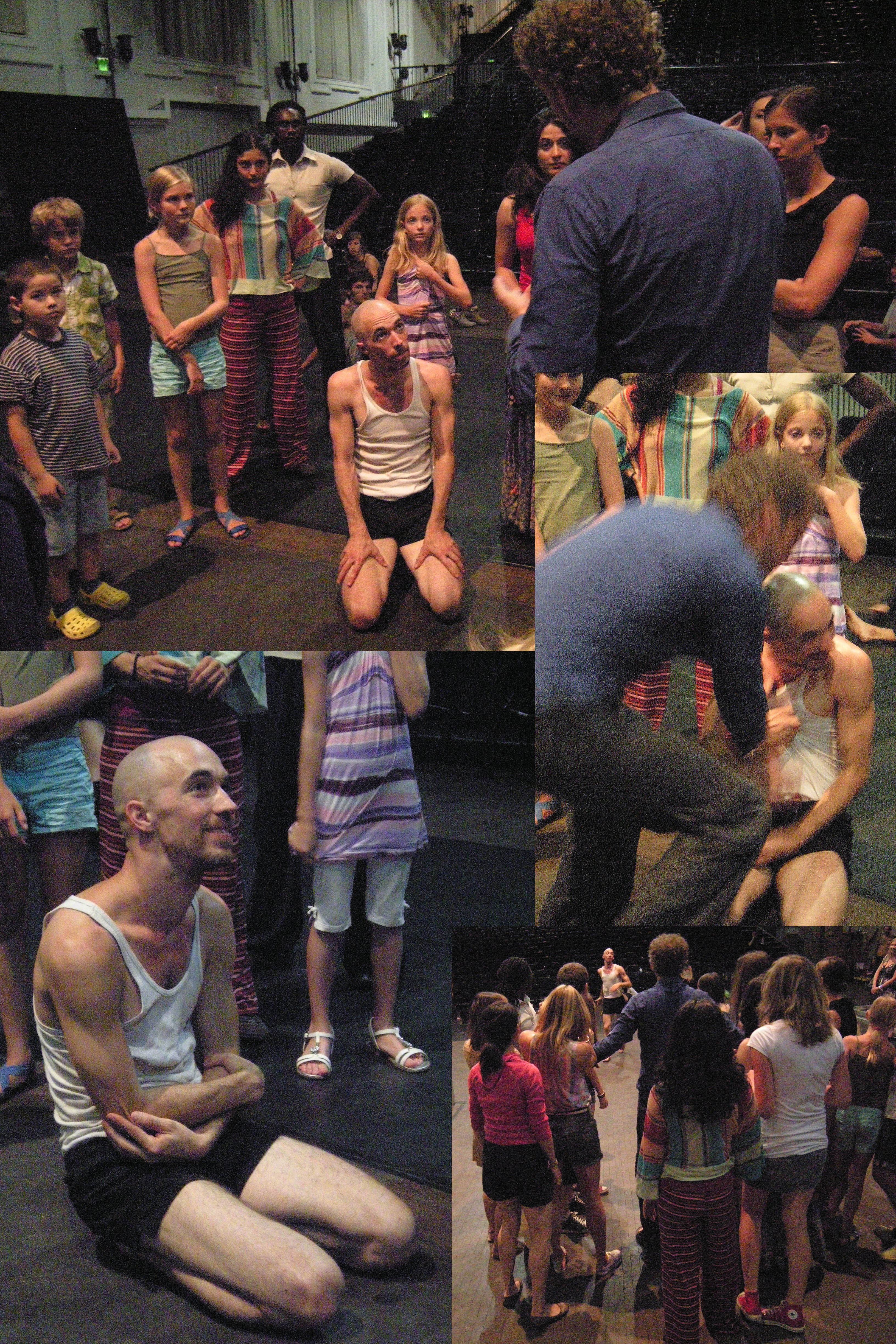 See file name. Note: Camera's time stamp is set to UTC, which is local CEST -2h.